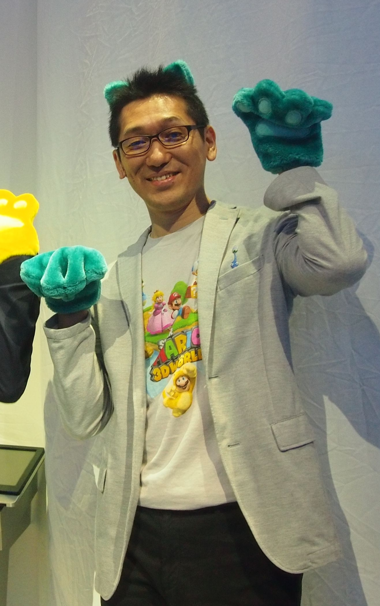 Super Mario 3D World producer Koichi Hayashida at E3 2013 Clipping of File:Yoshiaki Koizumi and Koichi Hayashida at E3 2013.JPG